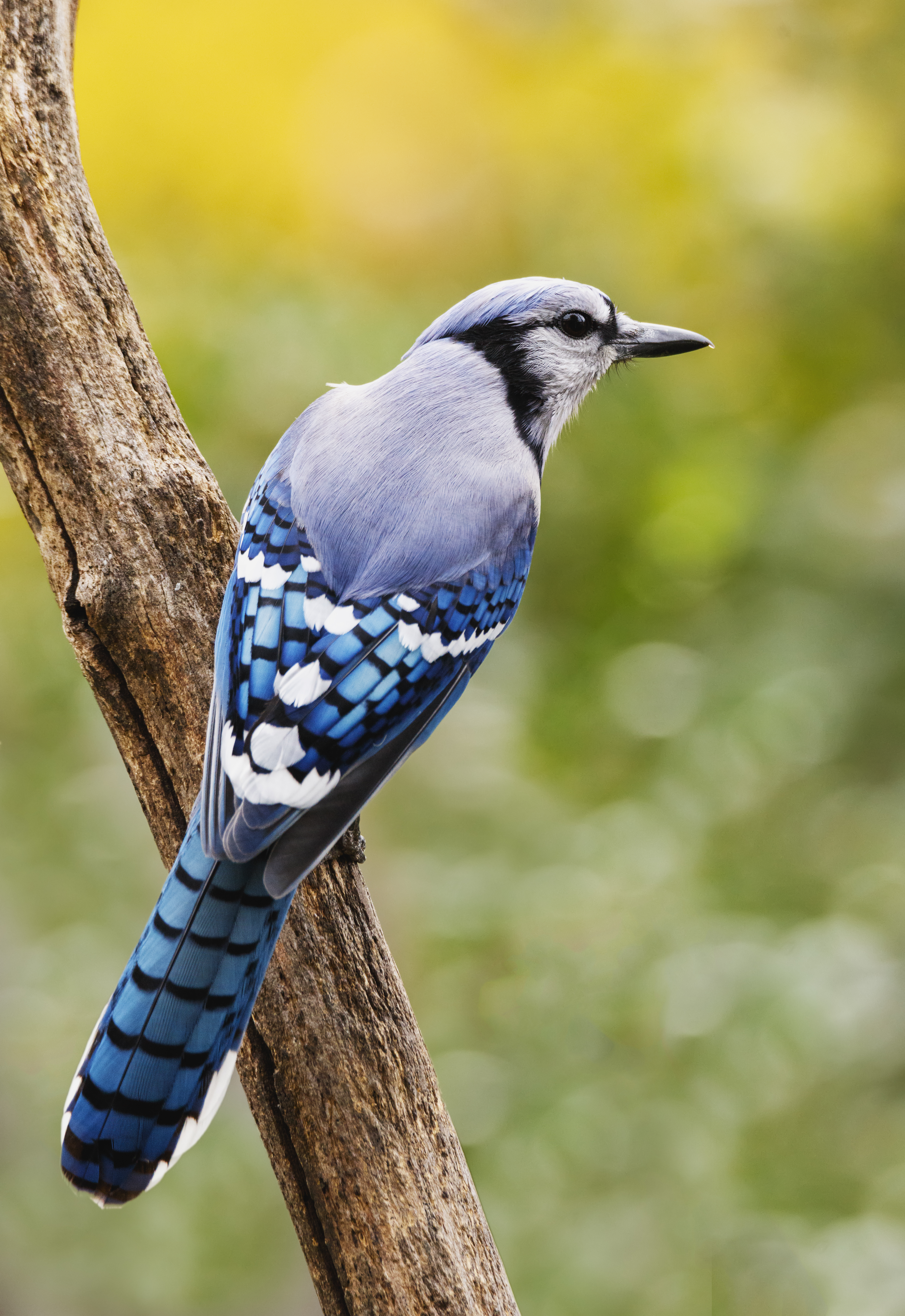 NPS | N.Lewis Blue goes well with fall colors! (KOA8968)